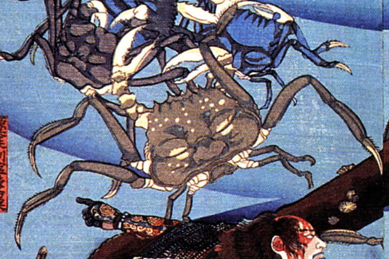 Heikea japonica, The ghost of Taira Tomomori along with the anchor he drowned with, and heikegani with faces of fallen soldiers